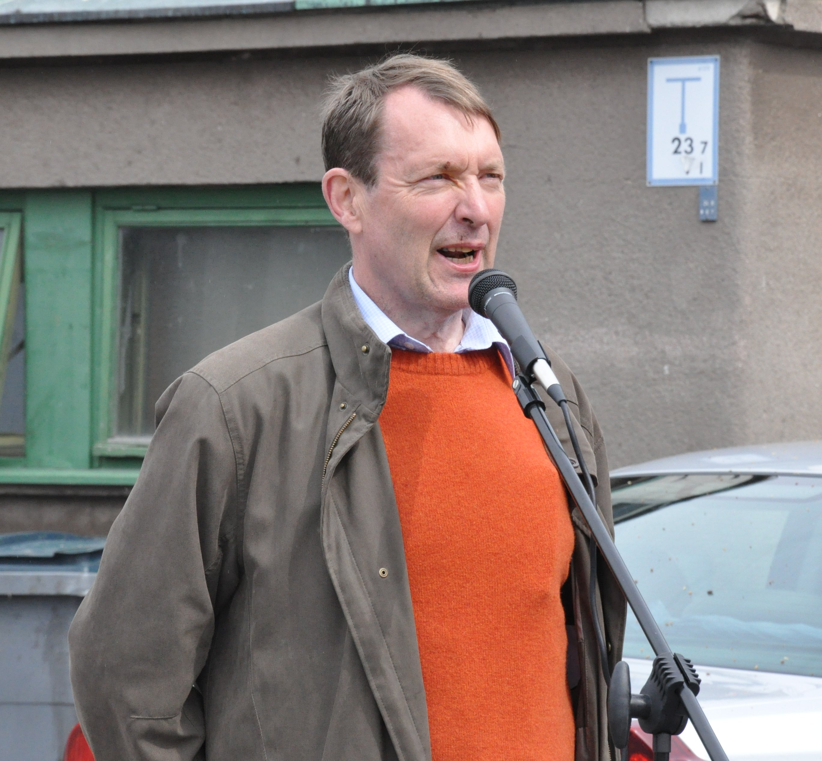 Finnish MEP Esko Seppänen speaking in Turku, Finland 2009.